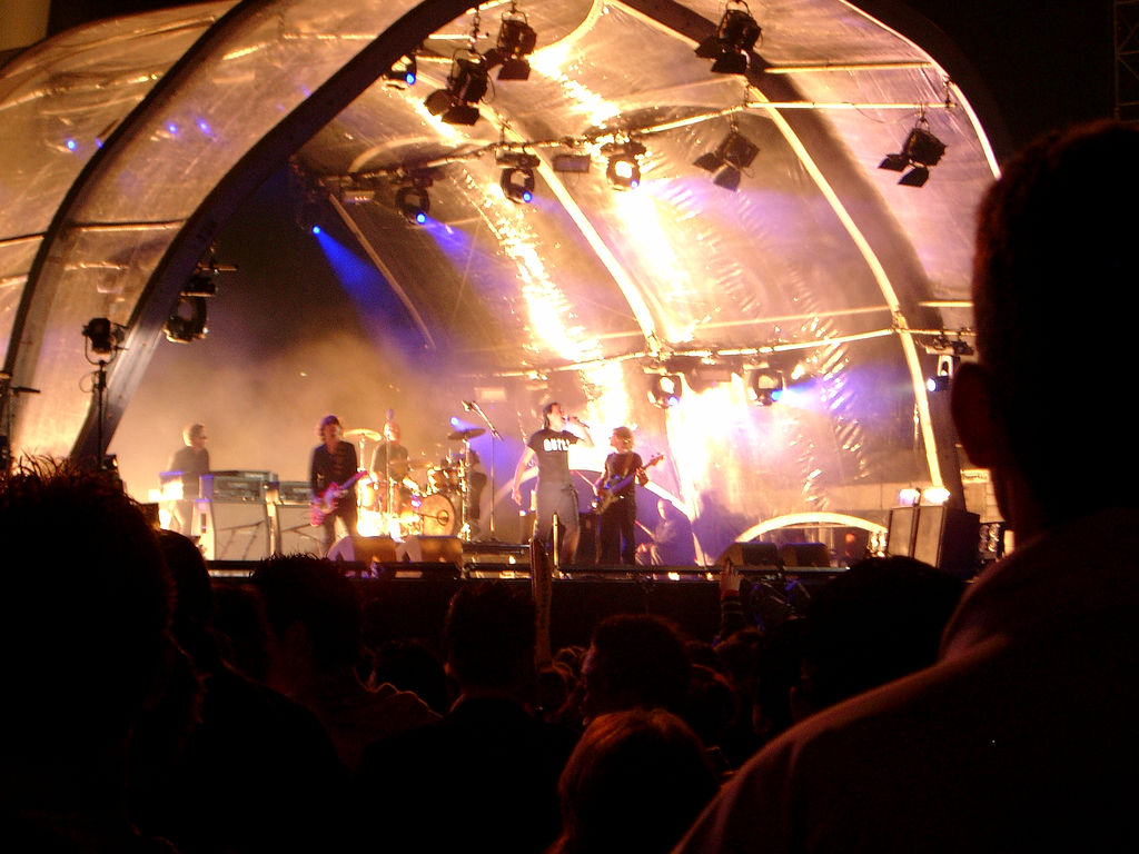 Dutch rockband Kane live @ TMF at the brigde in Rotterdam, The Netherlands. Taken in spring 2005.